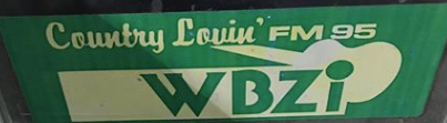 The original WBZI logo during it's country format in the early to mid 1980's.